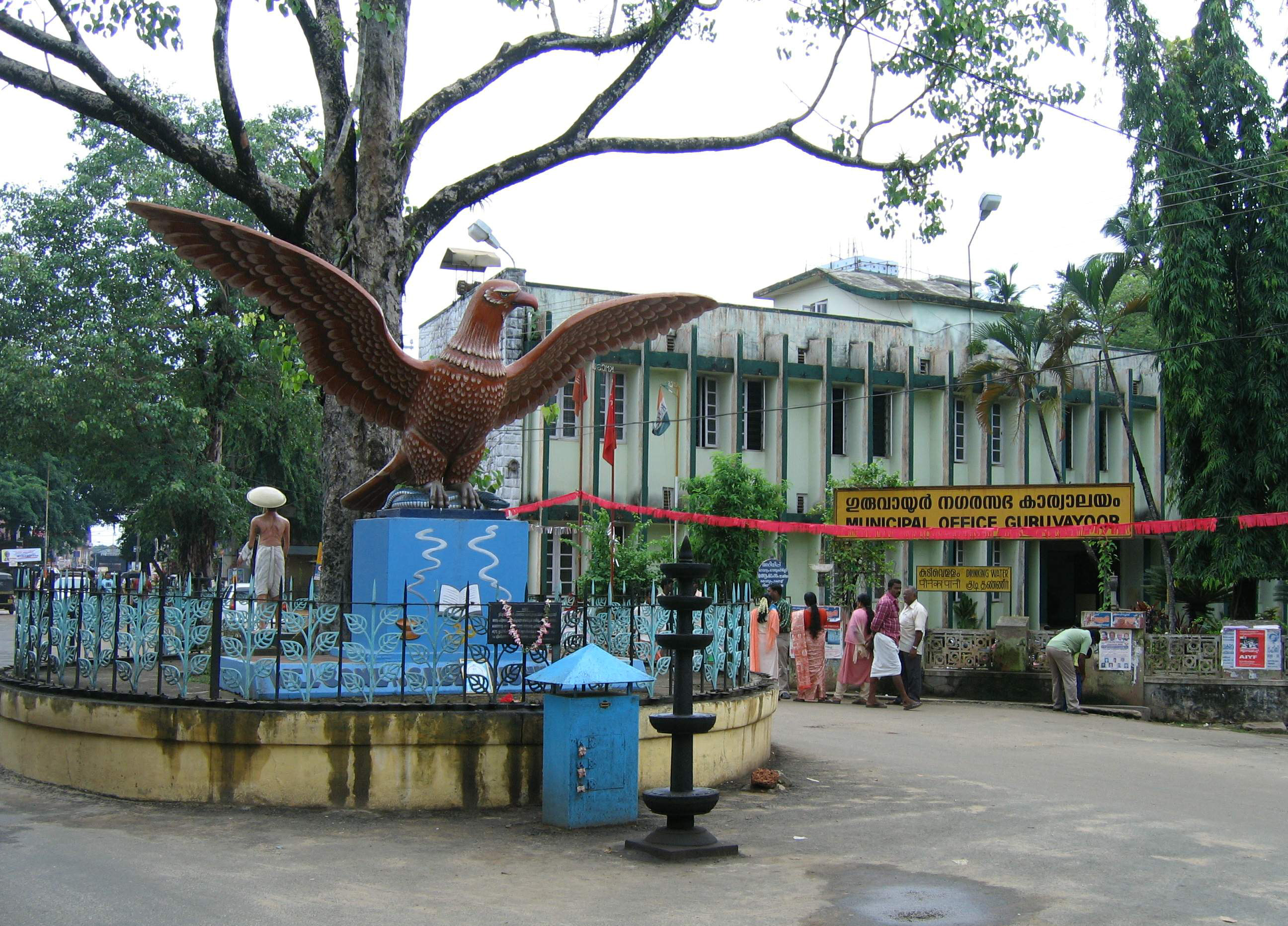 Garuda statue at Guruvayur Sri Krishna Temple